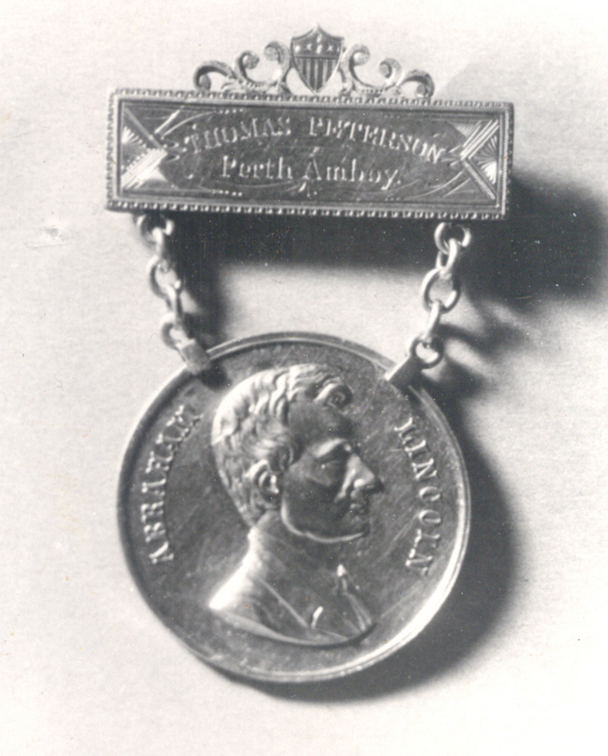 This medallion was awarded to Thomas Mundy Peterson for his achievement of being the first African American to vote following the passage of the 15th Amendment. The citizens of Perth Amboy raised $70 (a considerable sum back then) to make it. The medallion features a profile bust of a clean-shaven Abraham Lincoln.